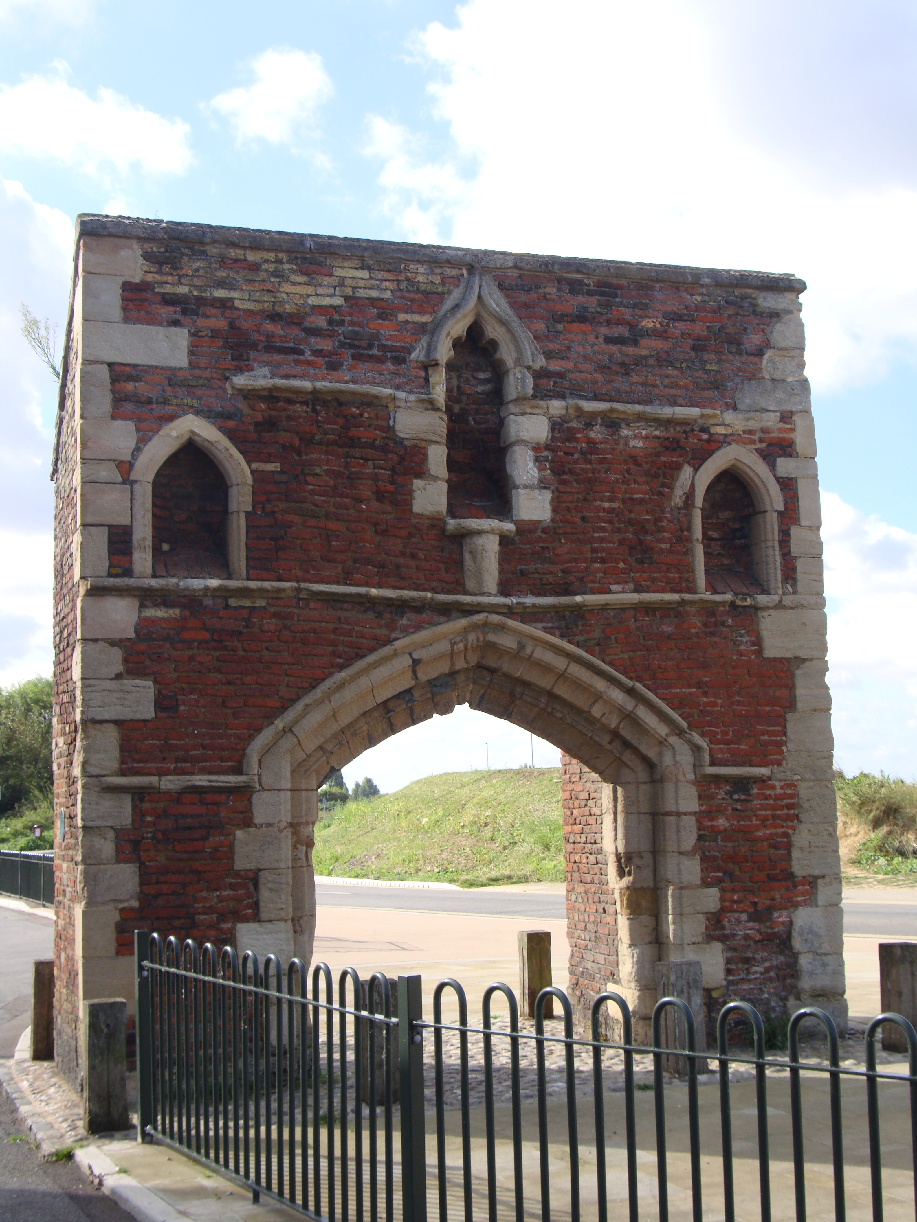 Northern gate arch of the former Carmelite Friary, King's Lynn, Norfolk, England